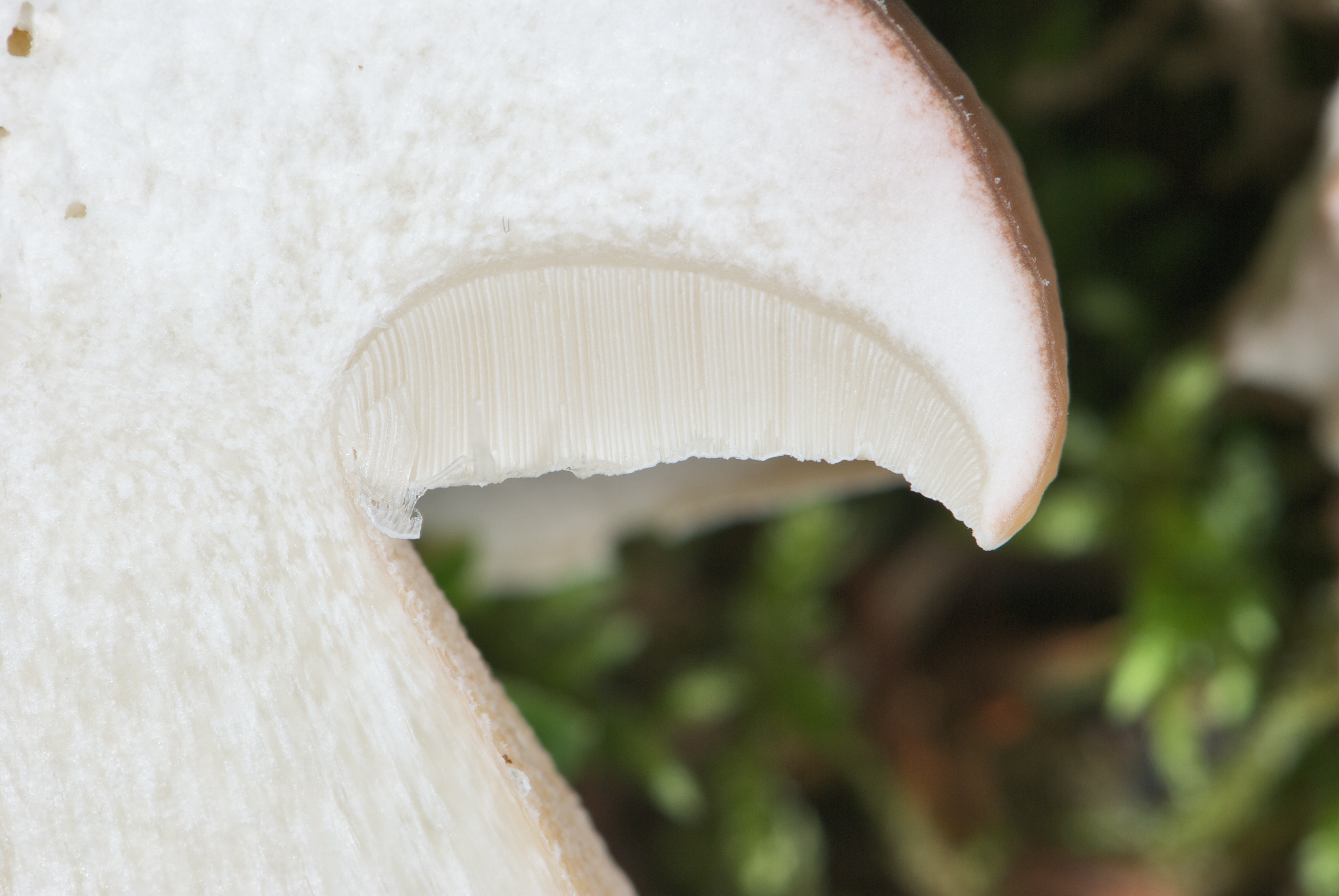 Boletus edulis is an edible mushroom in the Basidiomycete phylum. The fruiting body of the specimen in the picture has been growing for about four days and was cut apart to display the interior. A detail are the spore tubes for the production of Basidiospores.